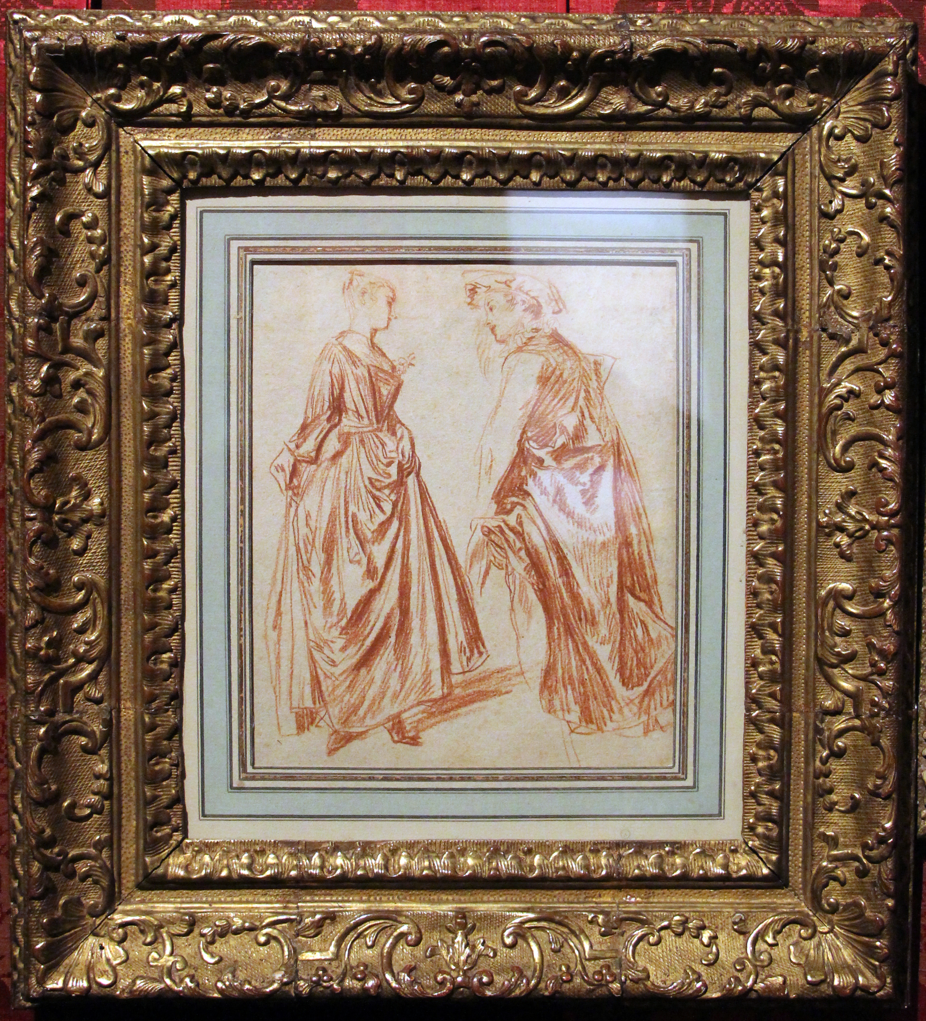 Collections of the Musée Cognacq-Jay